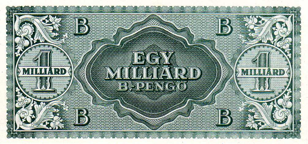 1.000.000.000 Bio. Hungarian pengő (1946) - reverse - NEVER ISSUED